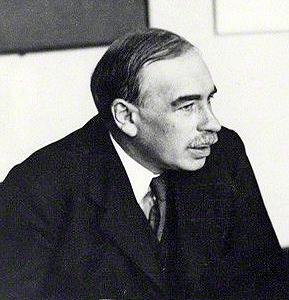 John Maynard Keynes. Detail of a photograph with Jan Christian Smuts.